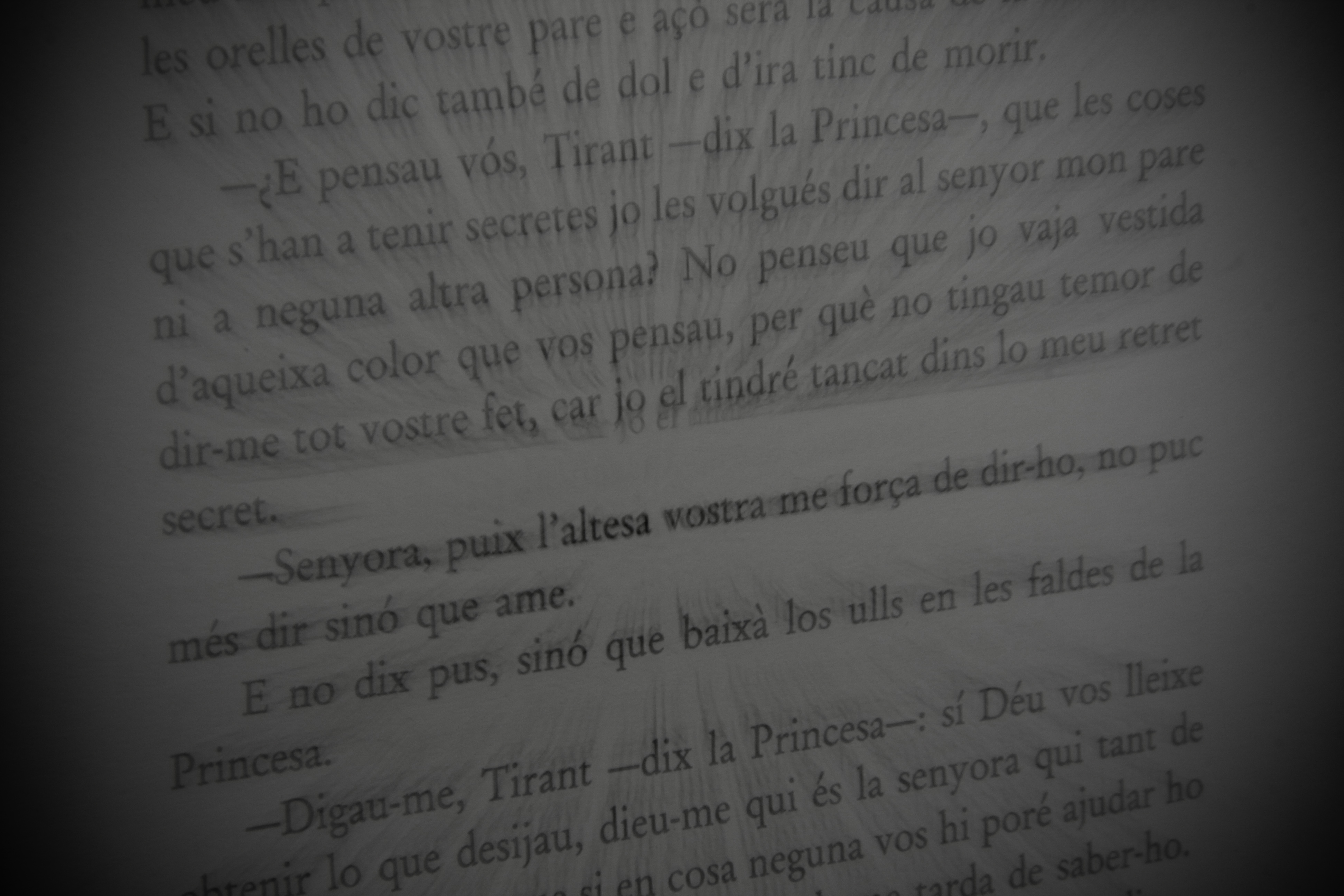 Photography from "Tirant lo Blanc". Photo presented at the I Digitally Photograhic Motive Contest for the Day of the Book at the UPV (University of Valencia).